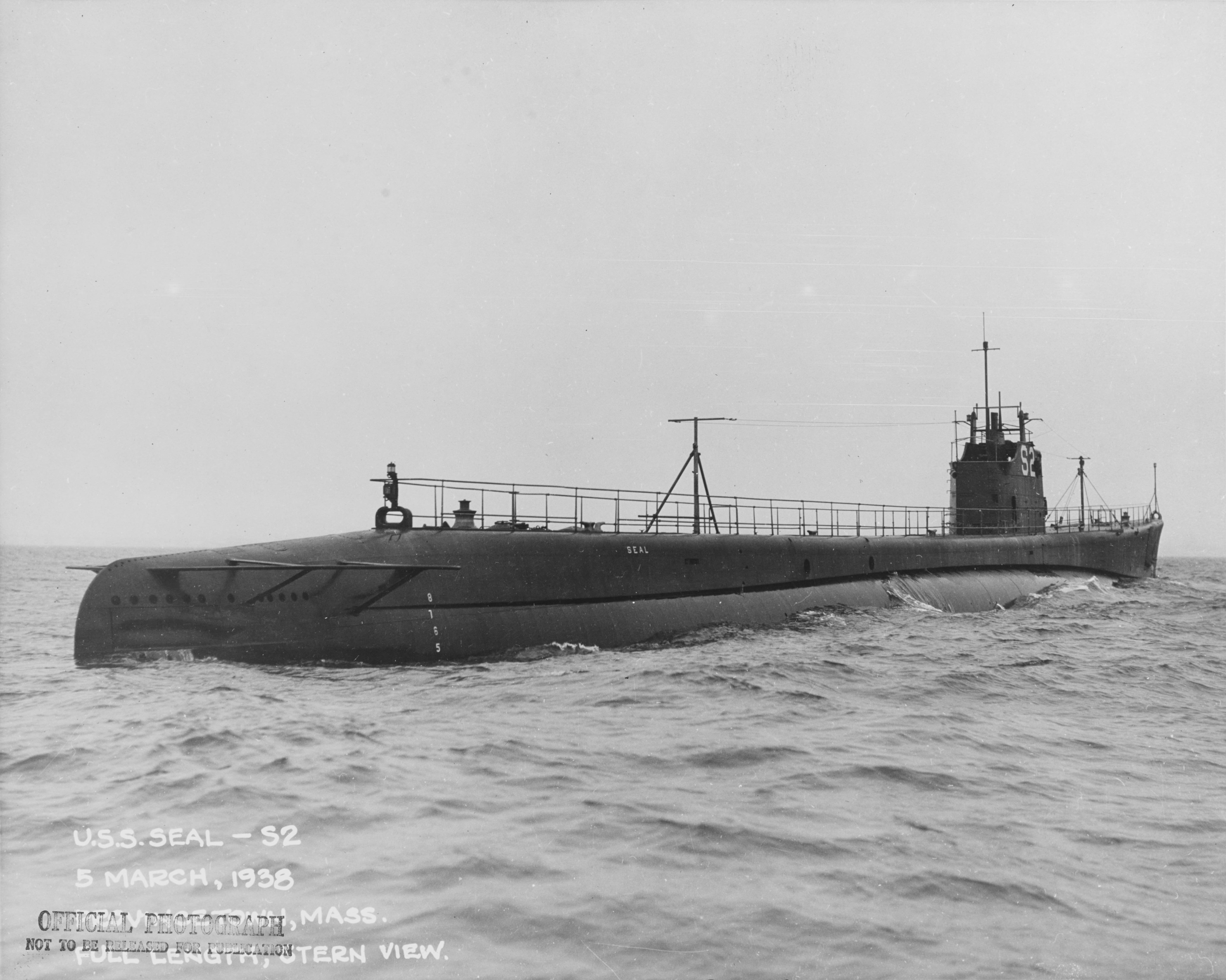 (SS-183) Off Provincetown, Massachusetts, during her trials, 5 March 1938. Photograph from the Bureau of Ships Collection in the U.S. National Archives.